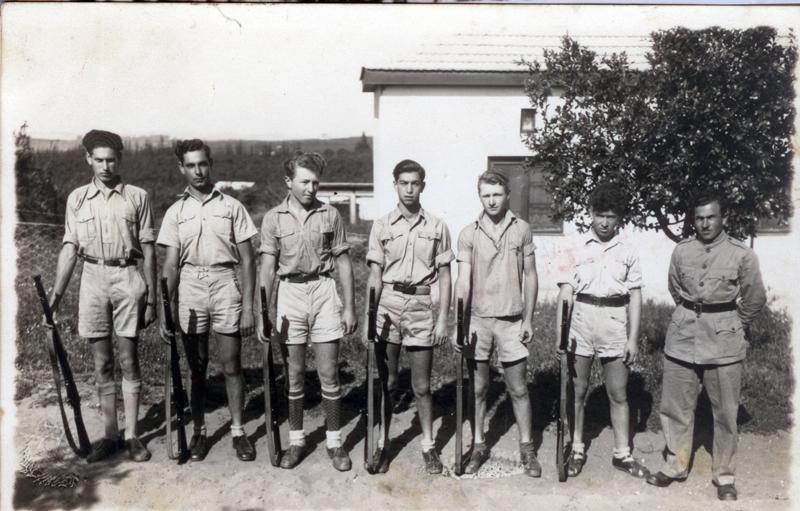 A Gadna group (semi military youth brigades) in training, led by Eliezer Menda